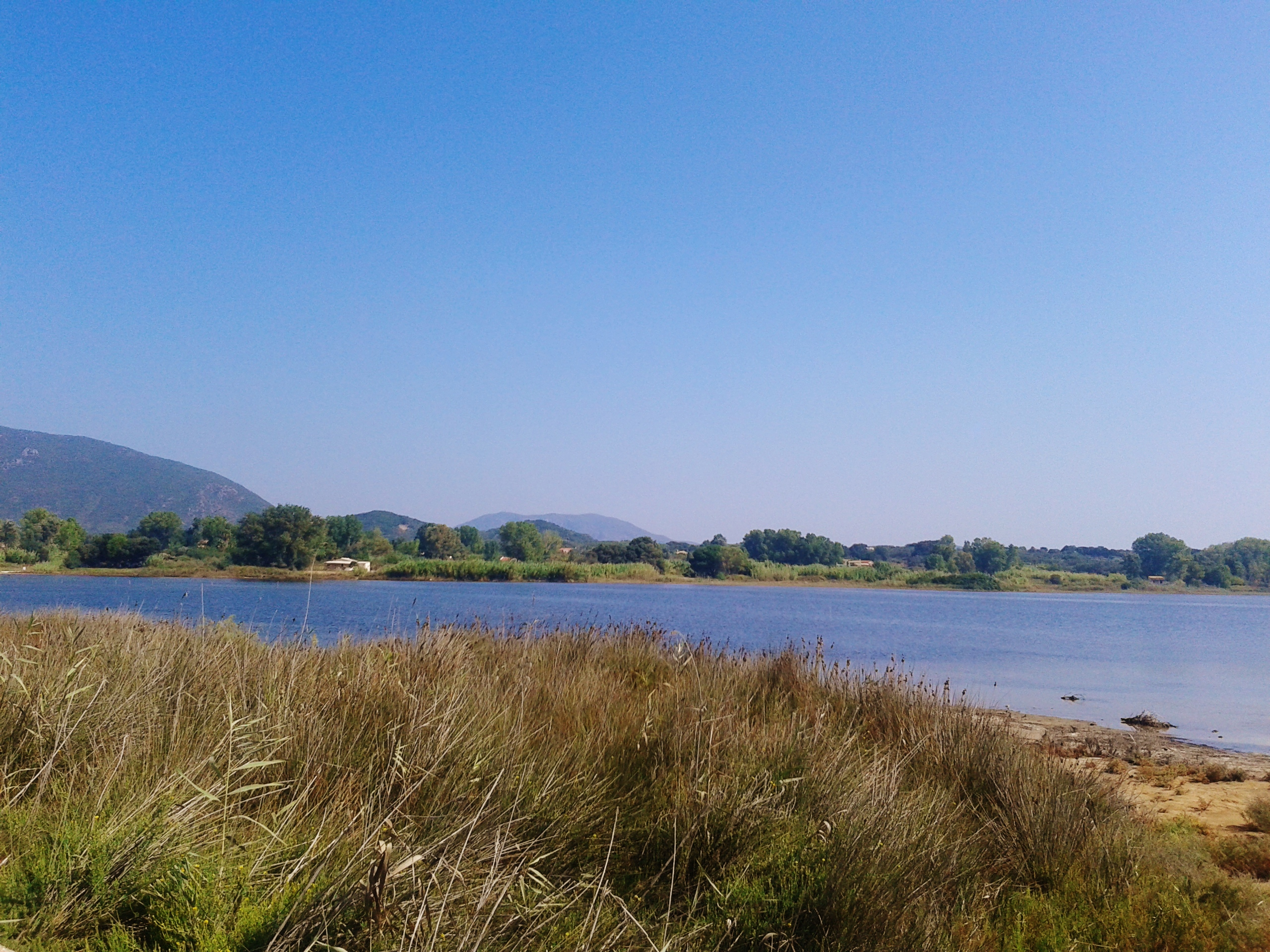 This is a photography of Natura 2000 protected area with ID GR2230002